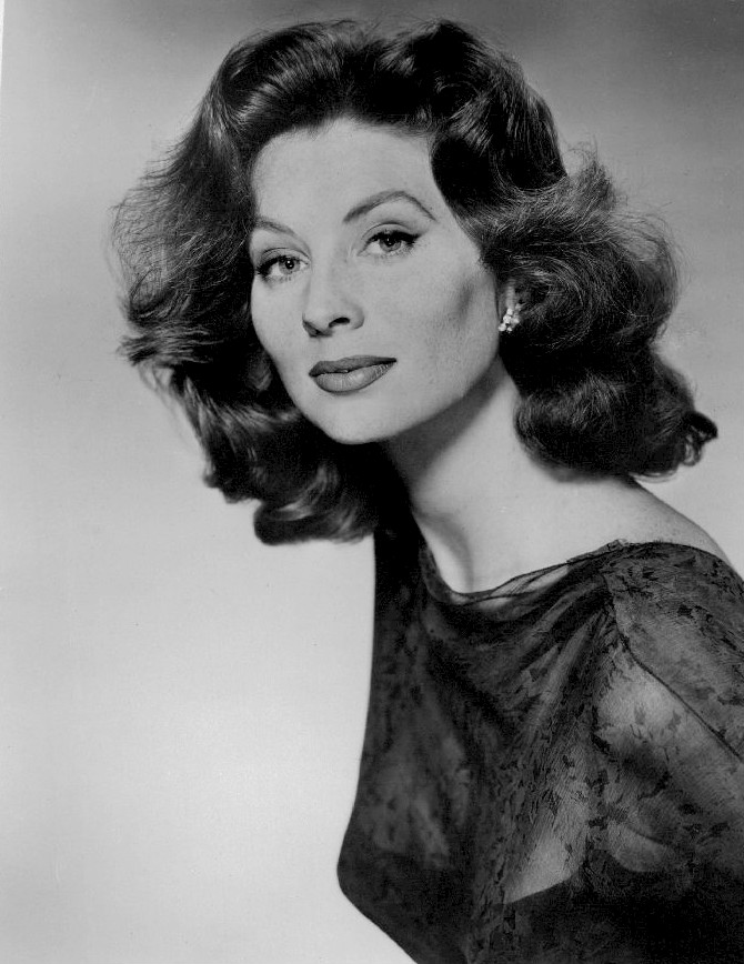 Photo of model-actress Suzy Parker from a 1963 ABC Television special on fashion.